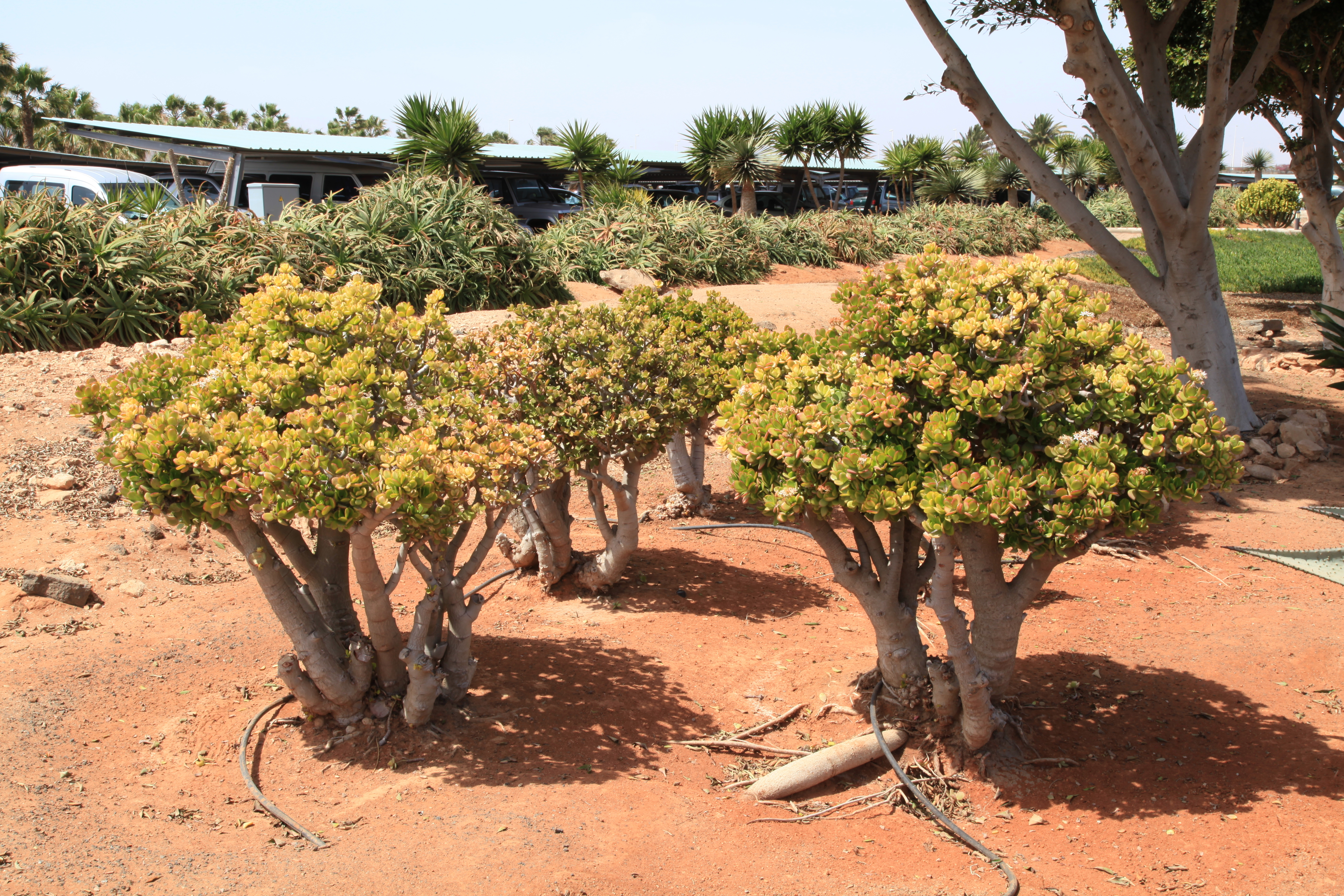 Crassula ovata grown in the airport area in Puerto del Rosario, Fuerteventura, Canary Islands